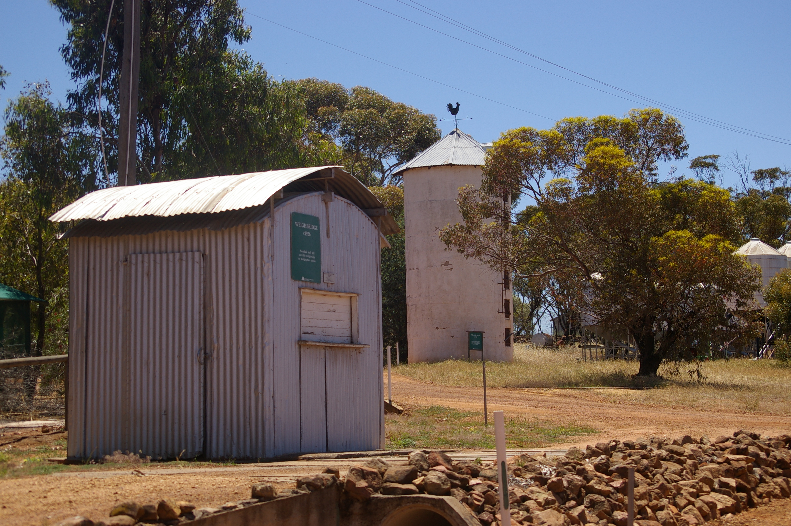 Taken on the Avondale Agricultural Reasearch Station Heritage listed Weighbridge c1936 with heritage listed silo c1927